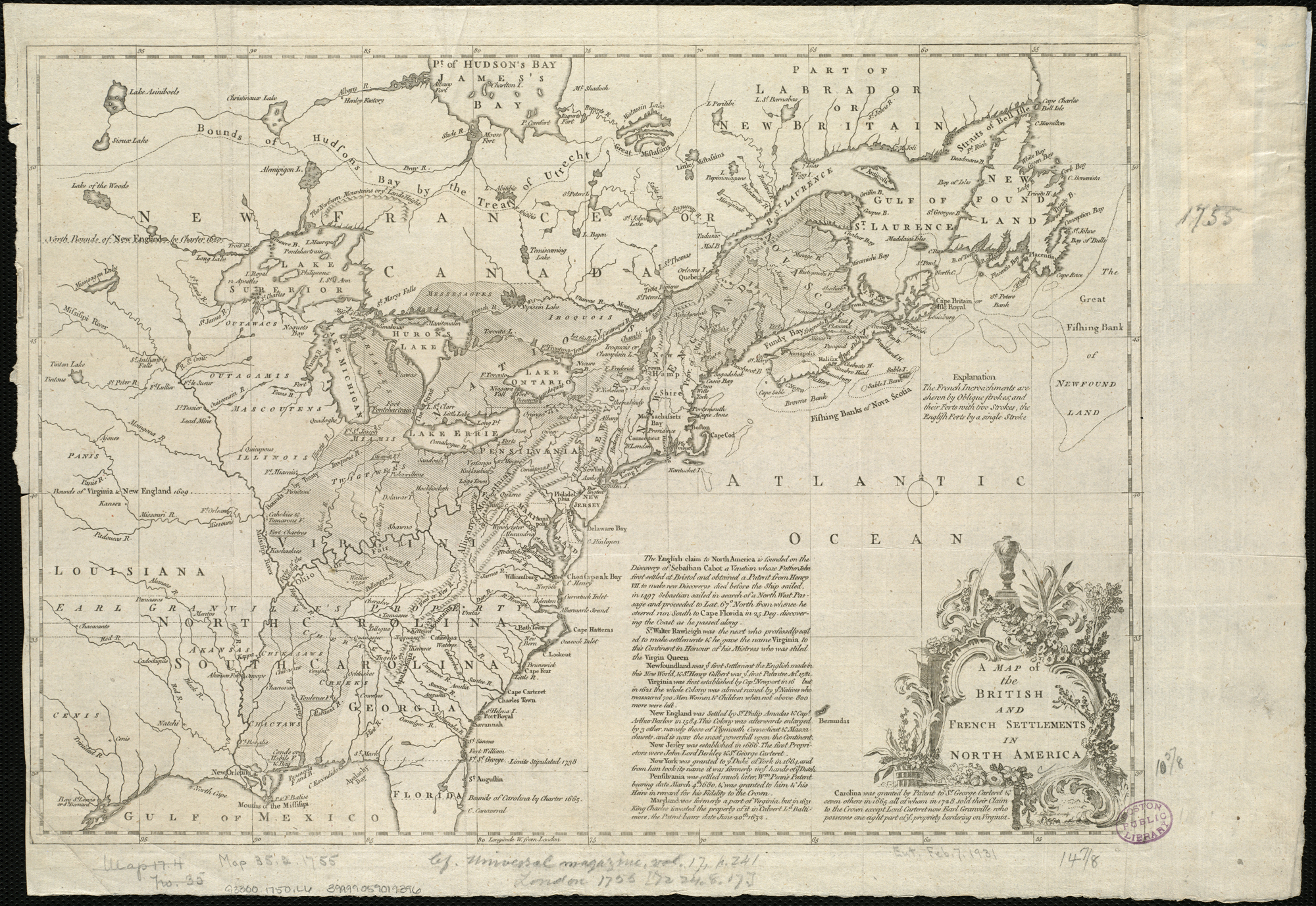 Zoom into this map at . Author: Lodge, John Publisher: Date: 1755 Location: North America Dimension: 27×38cm Scale: ca. 1:11,000,000 Call Number: G3300 1750 .L6